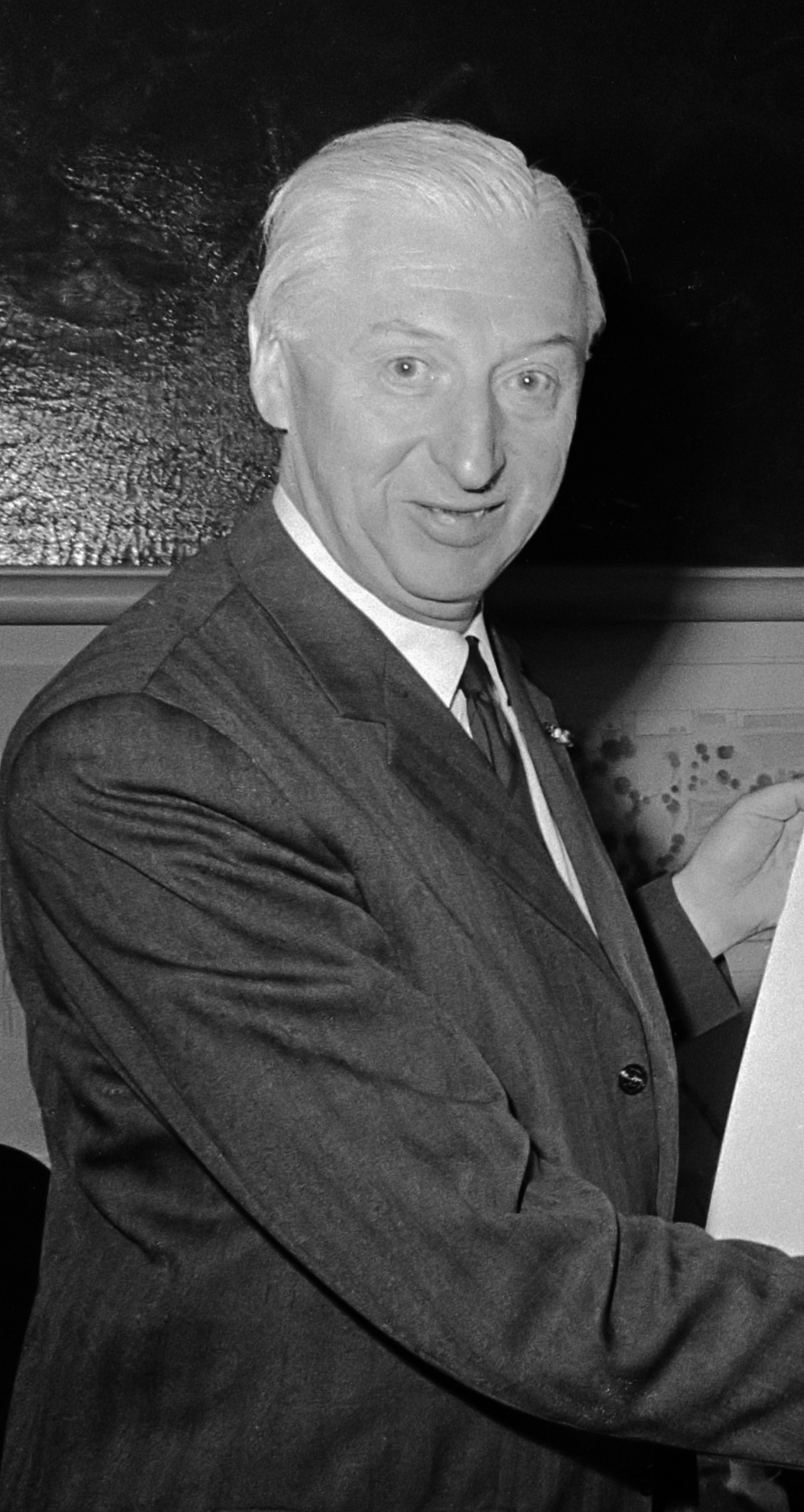 Donatie van het Comité "Prins Bernhard 60 jaar" voor een nieuw olifantenhuis in Artis. Aanbieding van het afficheontwerp door mr. H.W. Bloemers (l), voorzitter van het comité en commissaris van de koningin van Gelderland, aan E.F. Jacobi, directeur van Artis